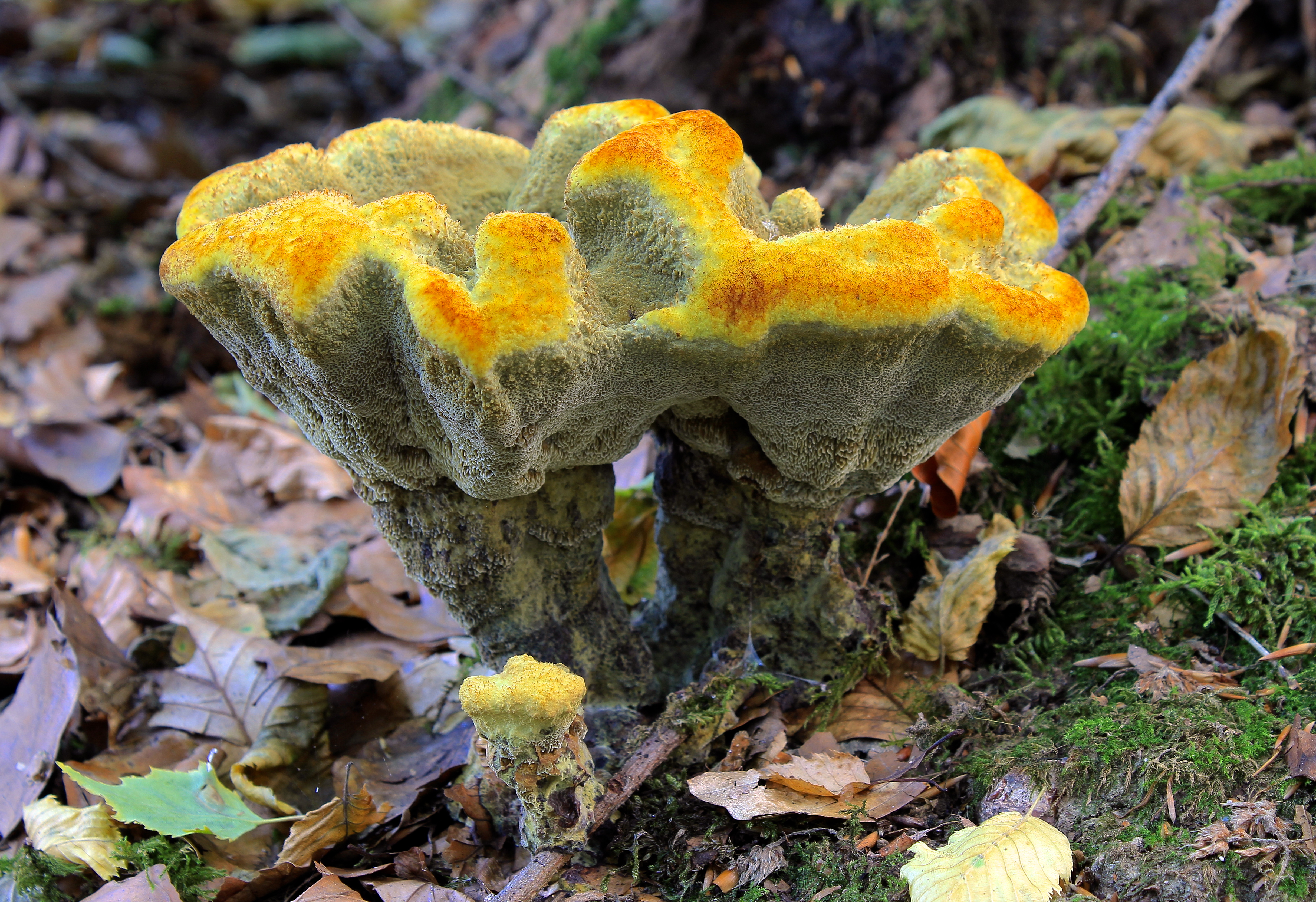 Phaeolus schweinitzii, syn. Phaeolus spadiceus, Dyer's Mazegill, taken in Trent Park, London Borough of Enfield, UK.